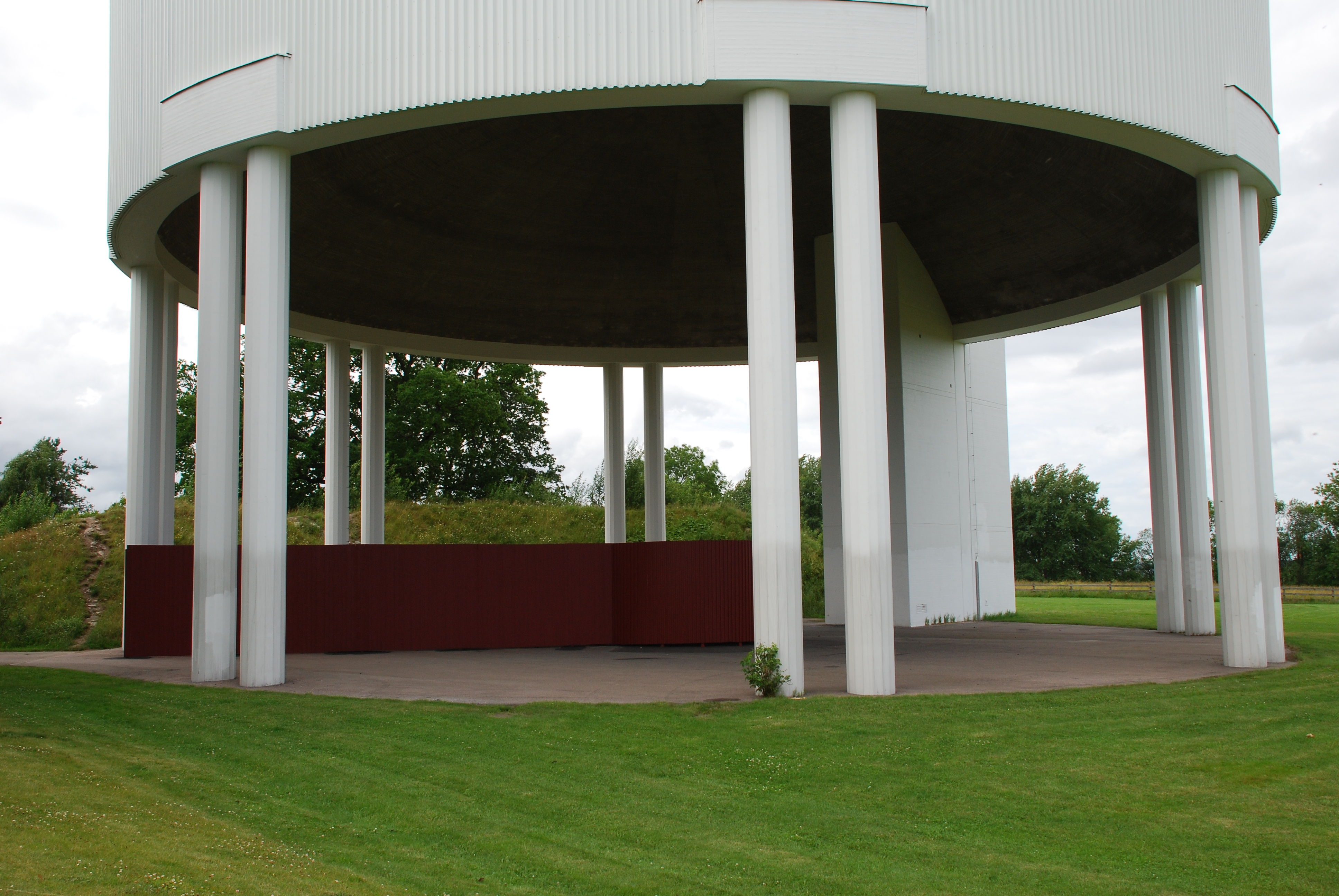 Water tower in Växjö